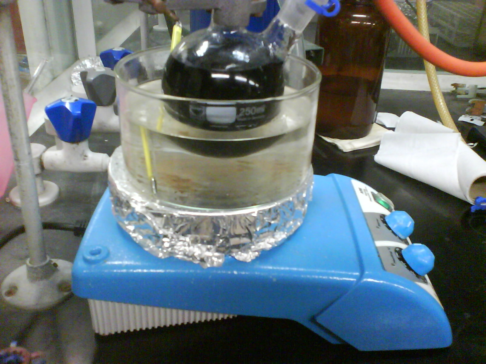 Reaction complete! Air free and moisture free toluene, with sodium-benzophenone indicator. Taken on 4 Sep 2006. Keywords: reflux, toluene, sodium, benzophenone, distillation, desiccation Gallery A bottle of benzophenone by Lancaster. Toluene is refluxed with sodium| and benzophenone to produce dry, oxygen-free toluene. The mixture is still not blue yet indicating that the reaction is not complete. The intense blue coloration due to the benzophenone ketyl radical shows that the toluene is considered free of air and moisture. After the toluene has been thoroughly dried by the sodium and benzophenone, it is distilled at atmospheric pressure under a slight positive pressure of nitrogen to prevent contamination by air into the receiving Schlenk flask. Category:desiccants Category:distillation